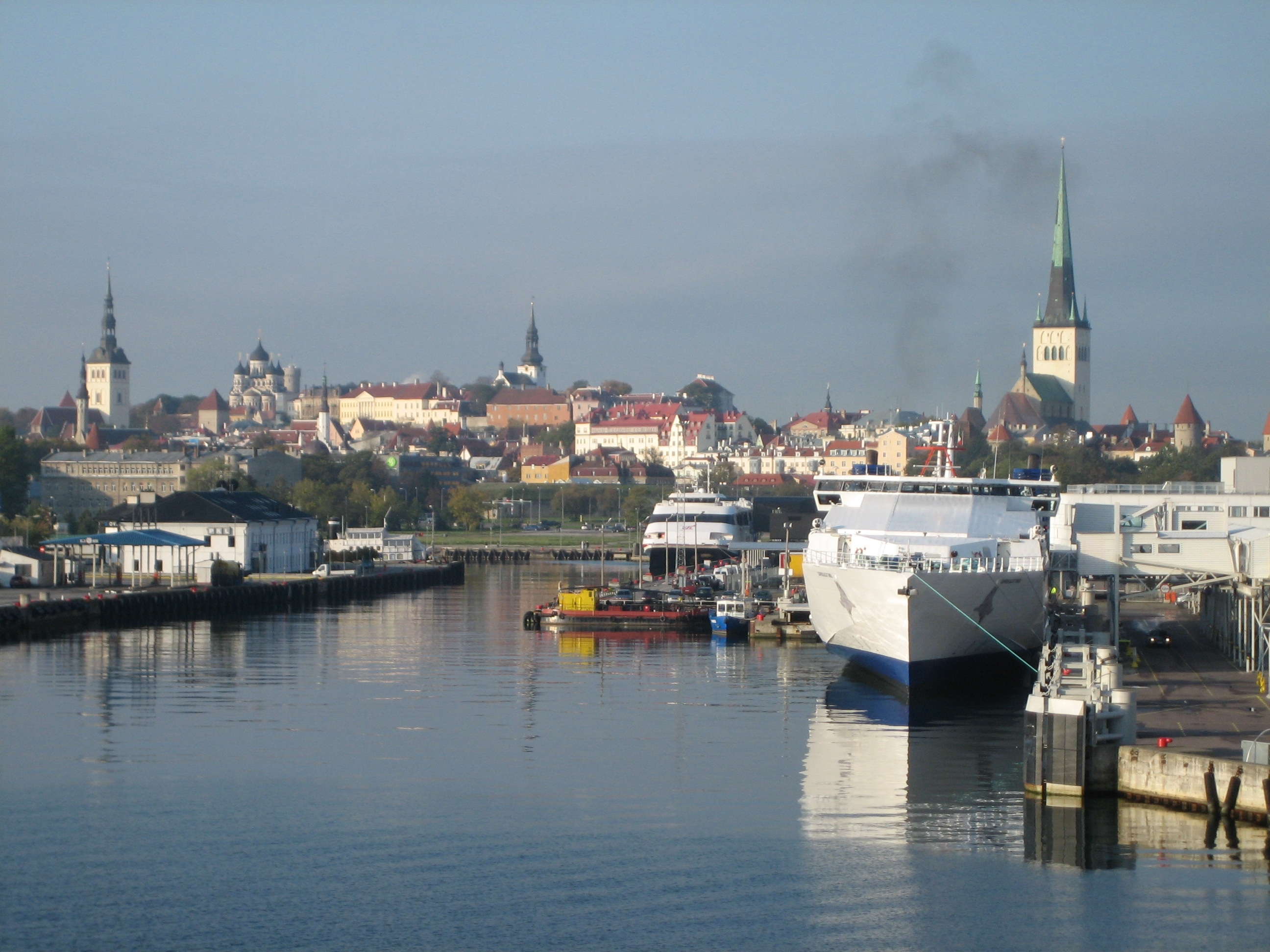 The passenger harbour of Tallinn in autumn